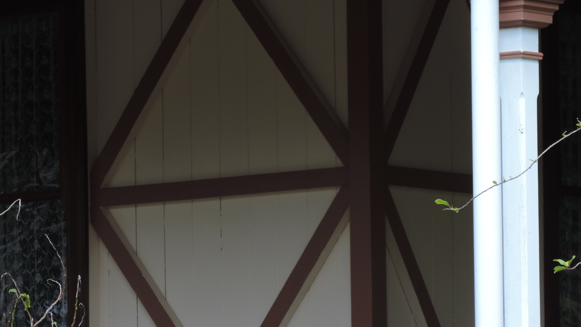 Koongalba